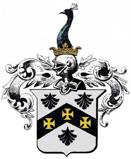 Perrin coat of arms